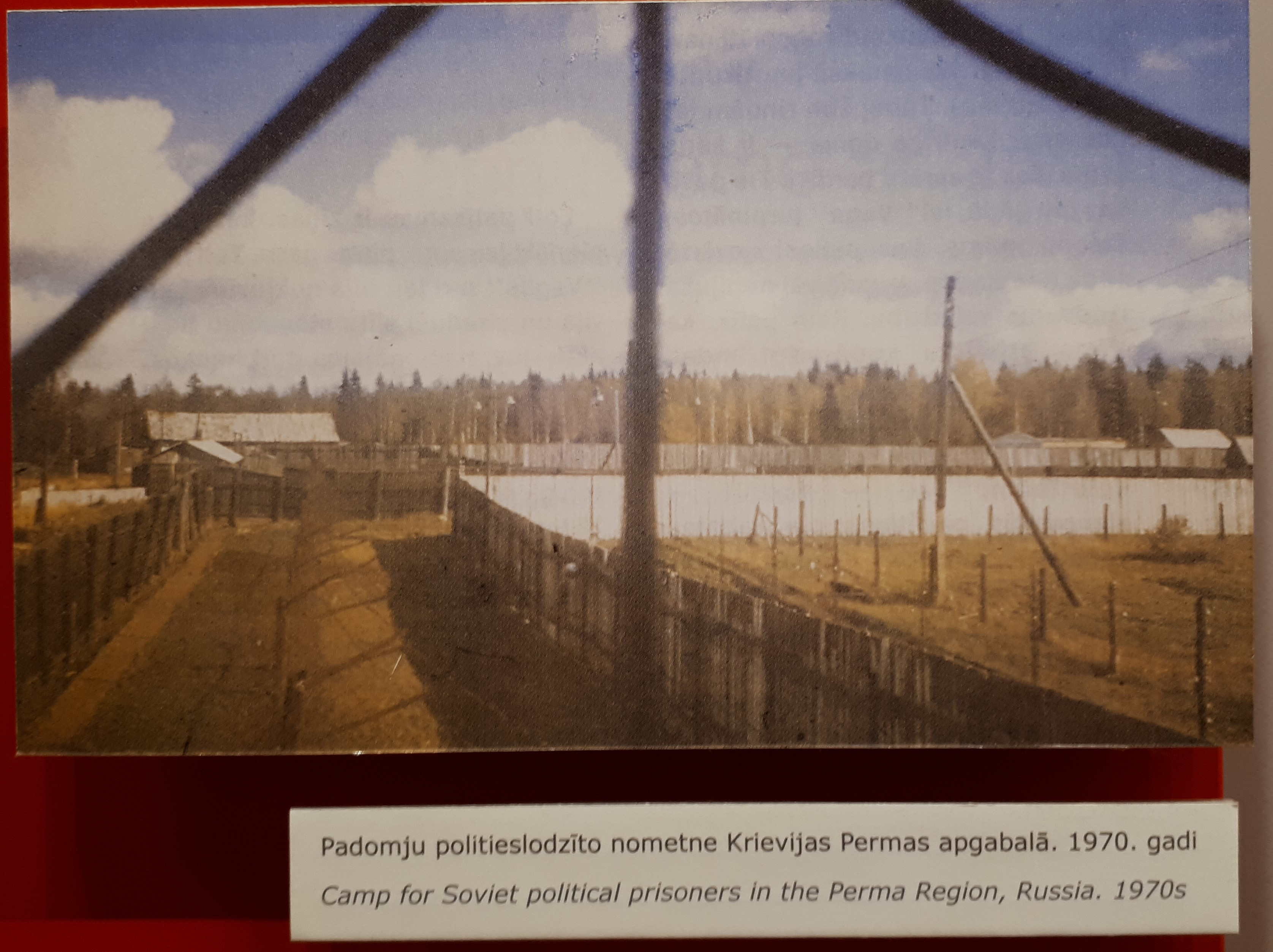 Political prison camp in Perm region, RSFSR, USSR